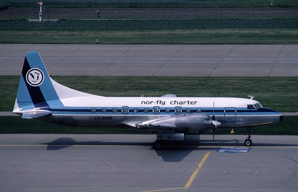 Nor-Fly Convair 580 LN-BWN at Zurich International Airport